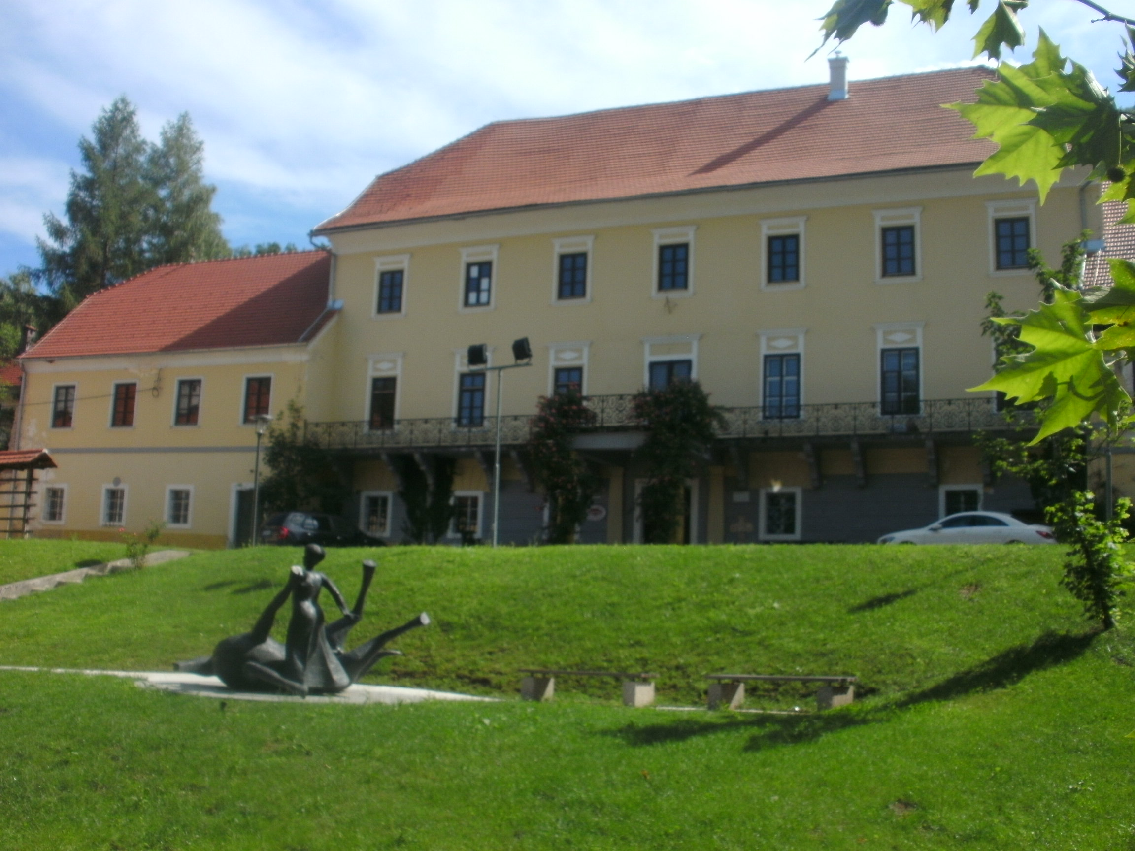 Trebnik Mansion, Slovenske Konjice, Slovenia